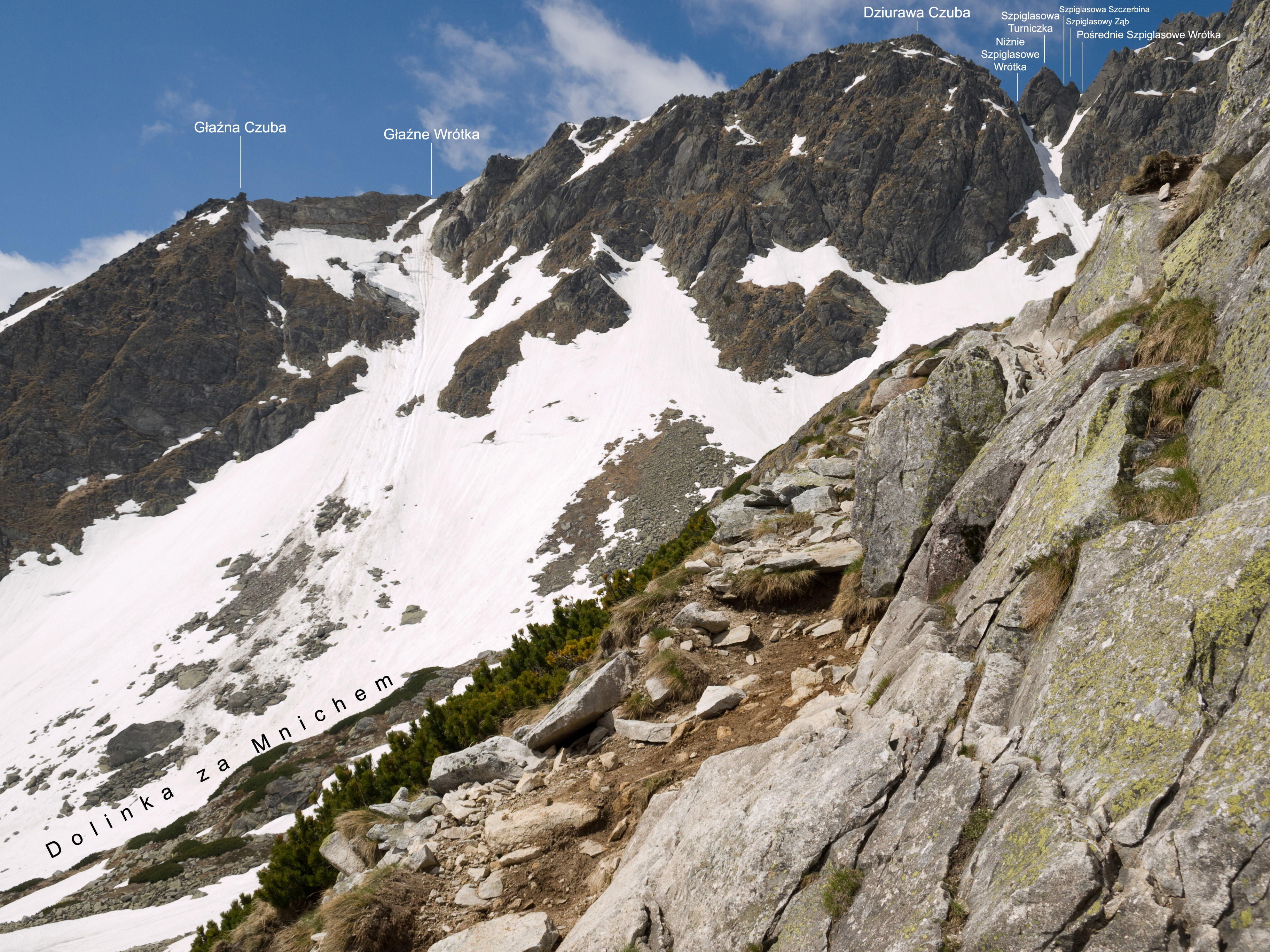 Dziurawa Czuba – view from Dolinka za Mnichem (Polish captions).